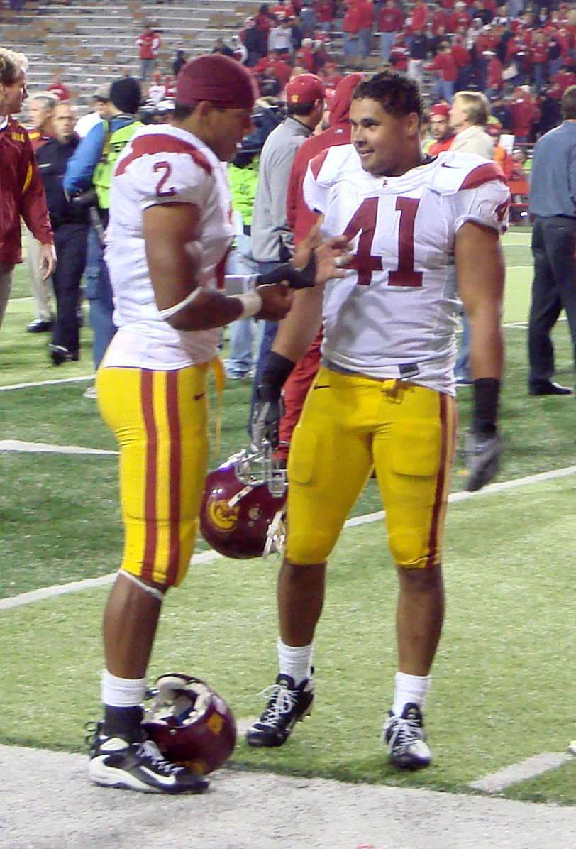 Linebacker Thomas Williams (#41) celebrates a victory with teammate Taylor Mays (#2) after a USC victory over Nebraska.